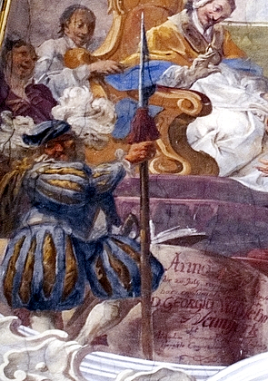 Self-portrait of Georg Wilhelm Neunhertz.